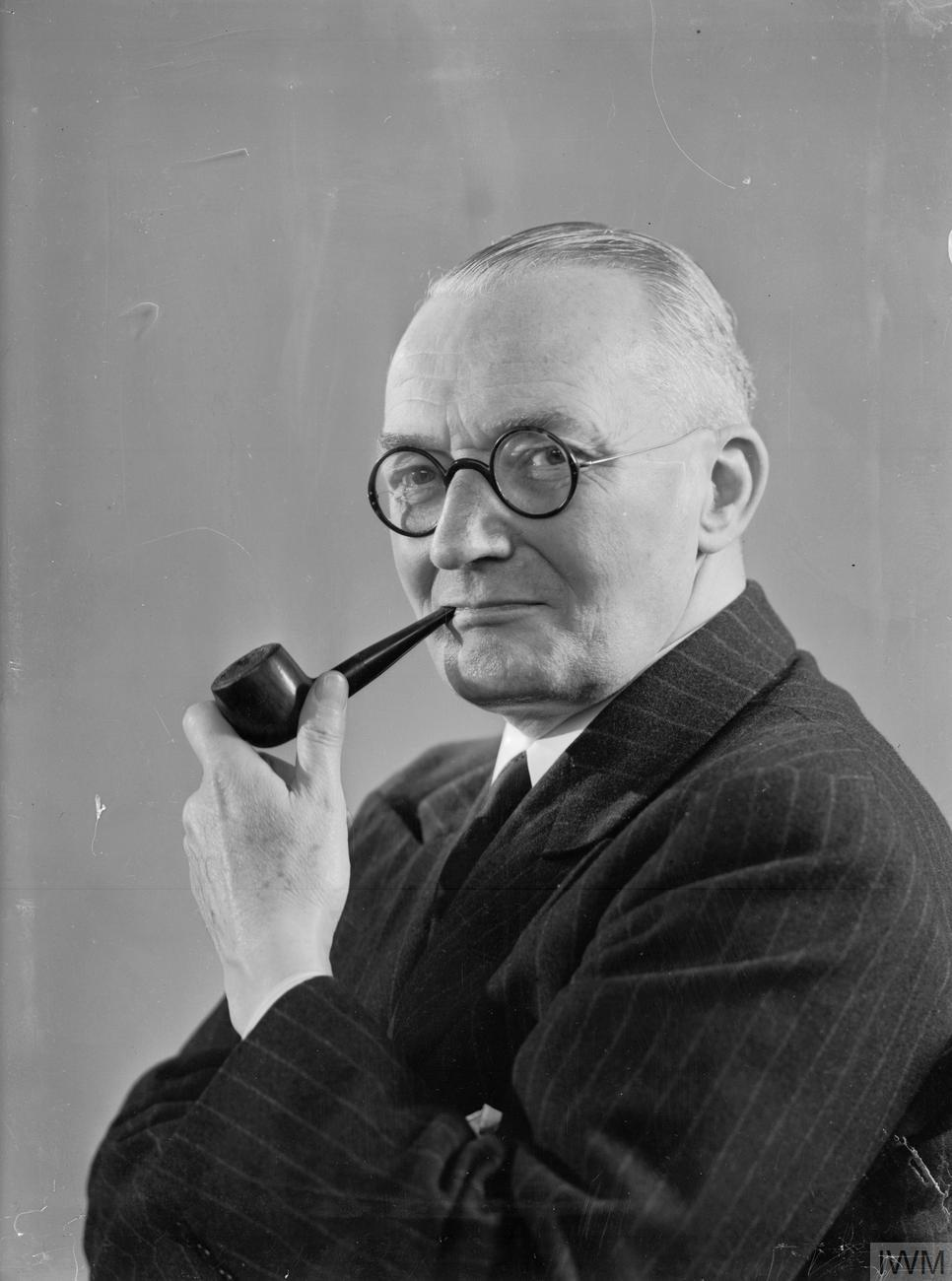 disc Jockey' Christopher Stone, 1945 A portrait of Christopher Stone, smoking a pipe. Stone was the first BBC 'Disc Jockey'. His first radio programme was broadcast on 12 June 1924.